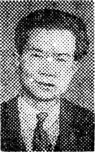 Noguchi, Takeshi (1906-1972). He was the lyricist of "Hyogo kenminka"(Hyogo prefectural anthem). This photo was taken in 1947.